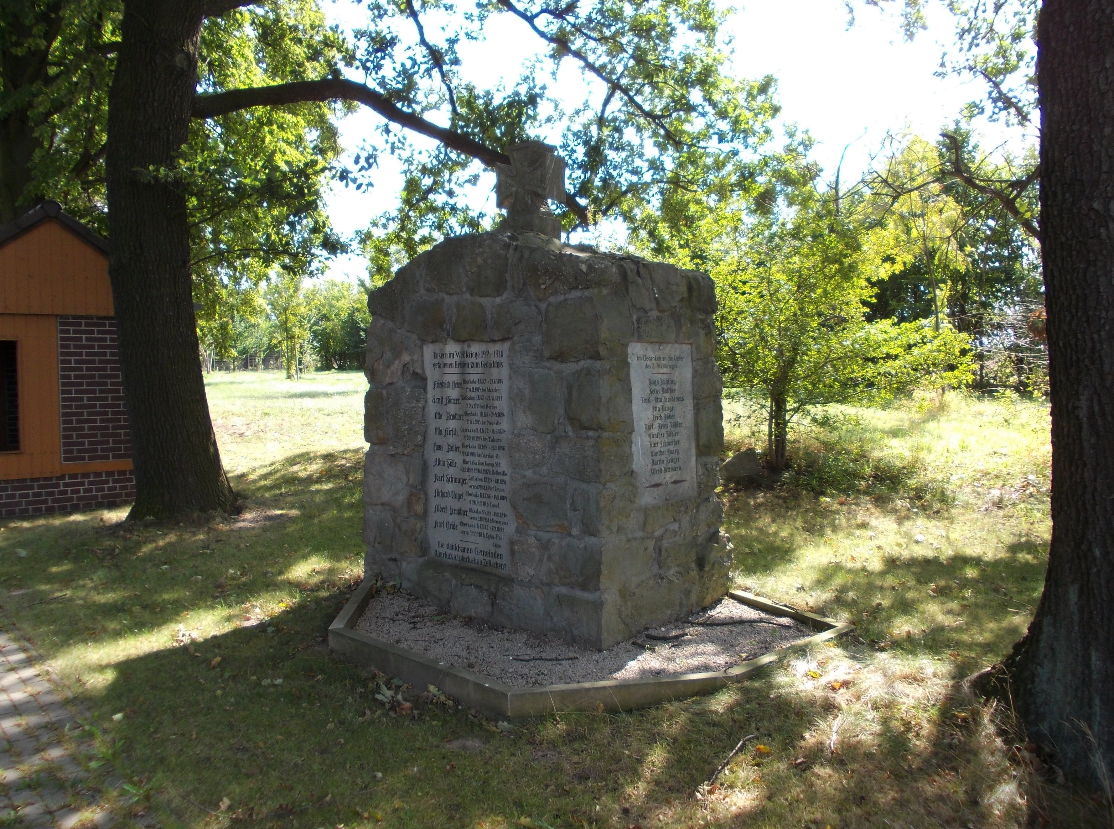 War memorial (World War I and II) in Oberkaka (Meineweh, district of Burgenlandkreis, Saxony-Anhalt)